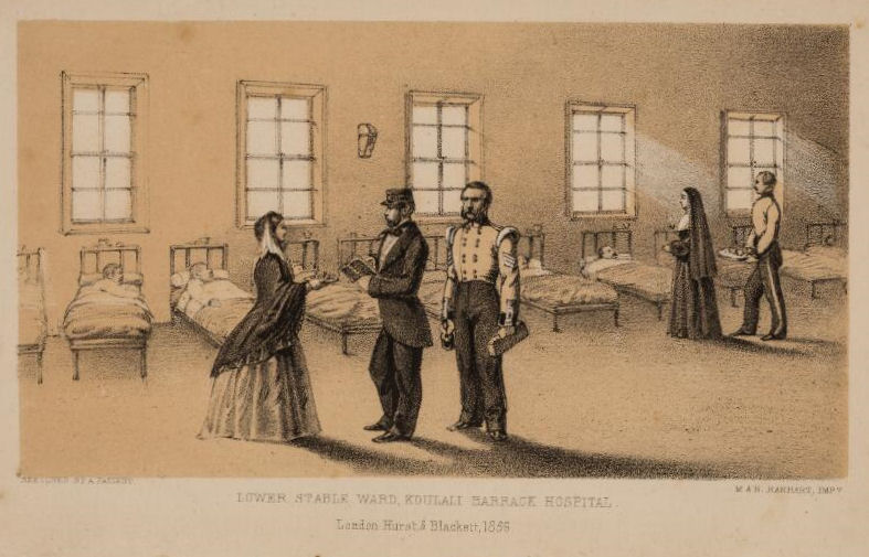 Scan of a lithograph of Koulali Barrack Hospital in the Crimea by Hurst & Blackett (1856) from a drawing by a patient